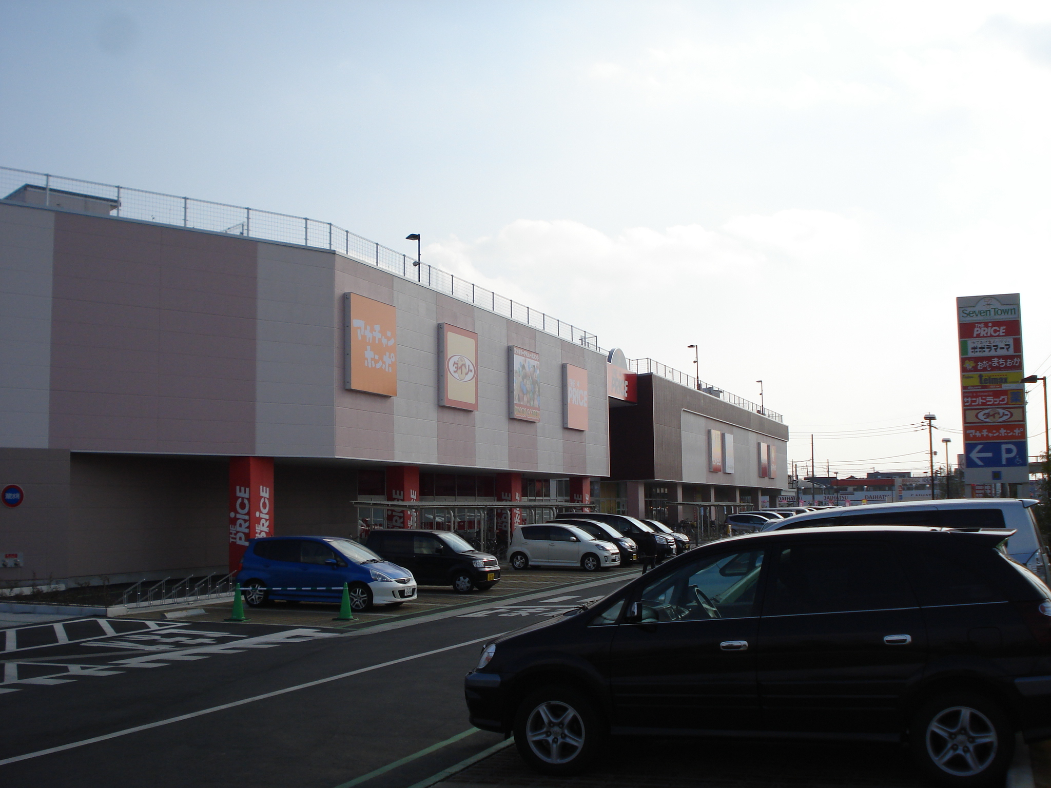 Shopping center "Seven Town Sengendai" (Koshigaya, Saitama)